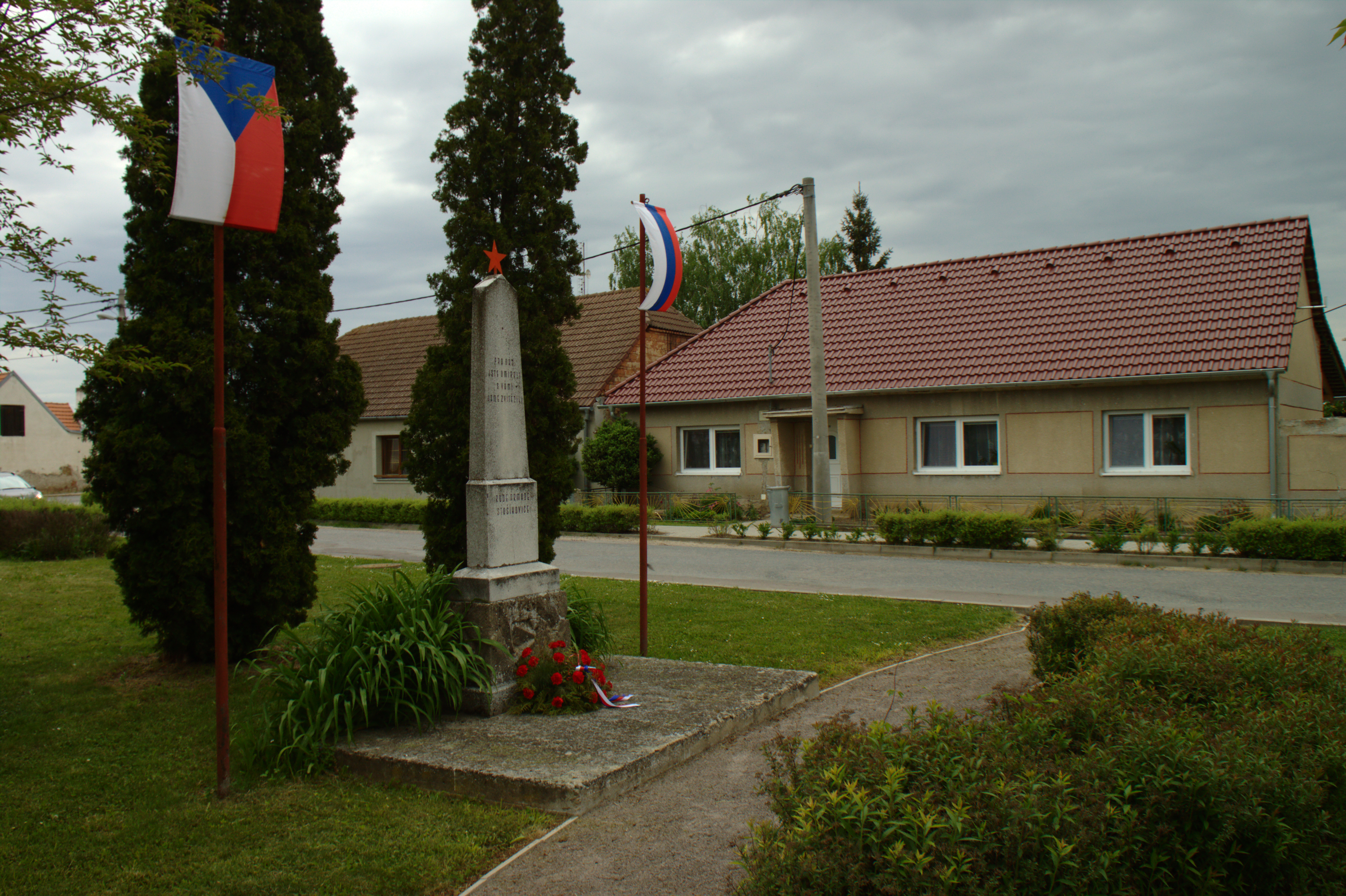 A WWII liberation monument in Stošíkovice na Louce, South Moravian Region, CZ